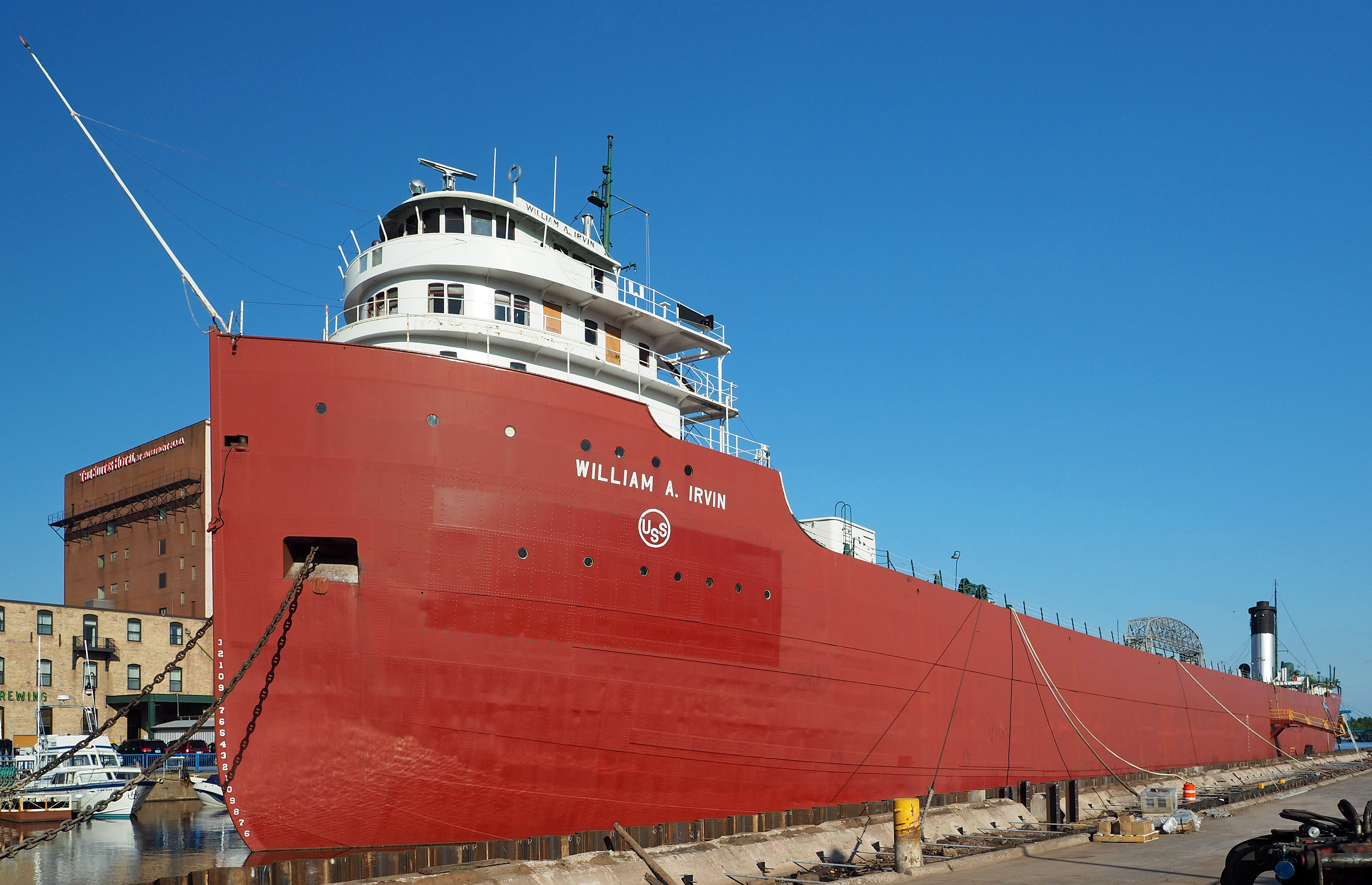 William A. Irvin, Minnesota Slip, Duluth Harbor, Duluth, Minnesota, USA. Viewed from the northwest.